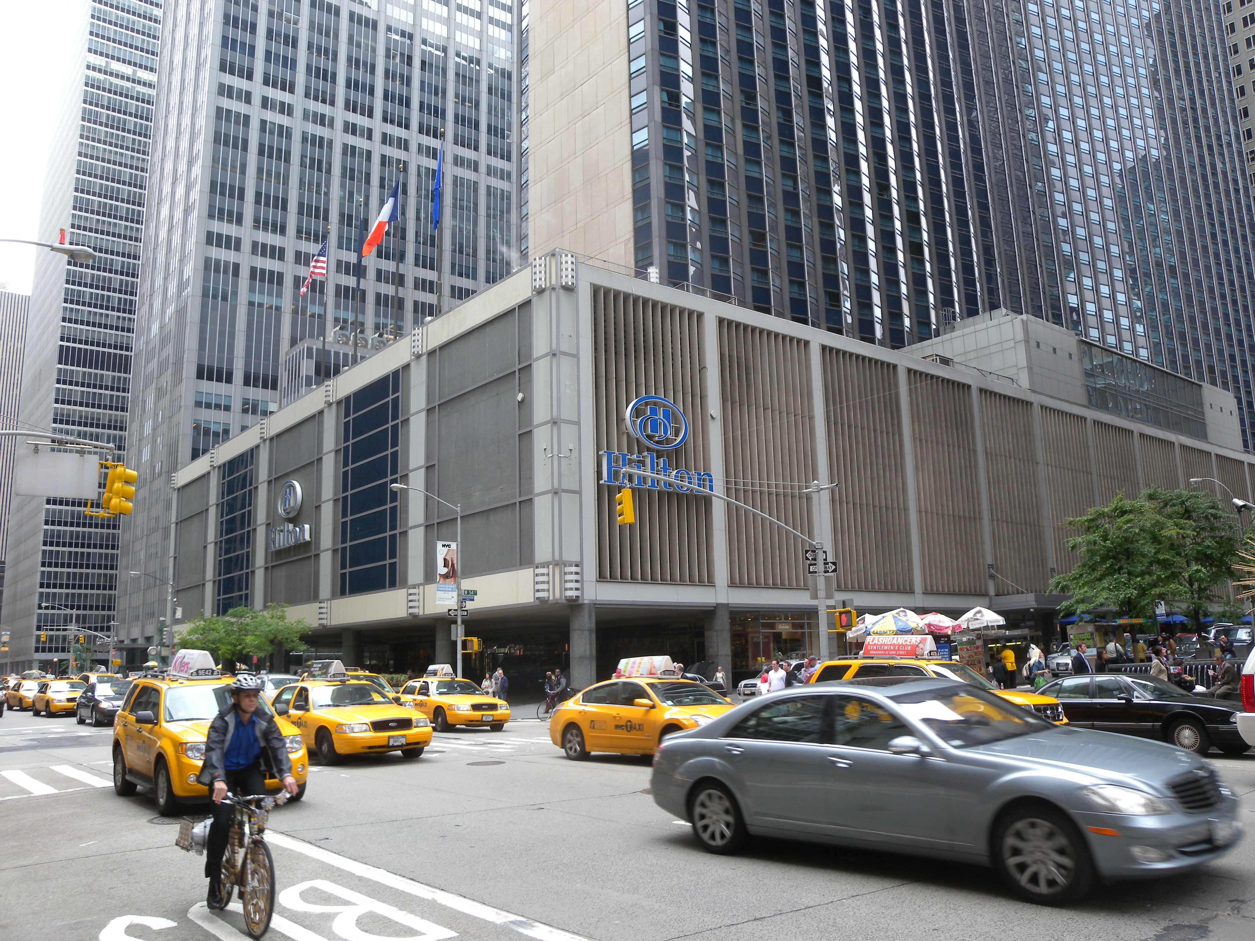 Looking southwest down 6th Avenue and across 54th Street at Hilton on a cloudy afternoon.